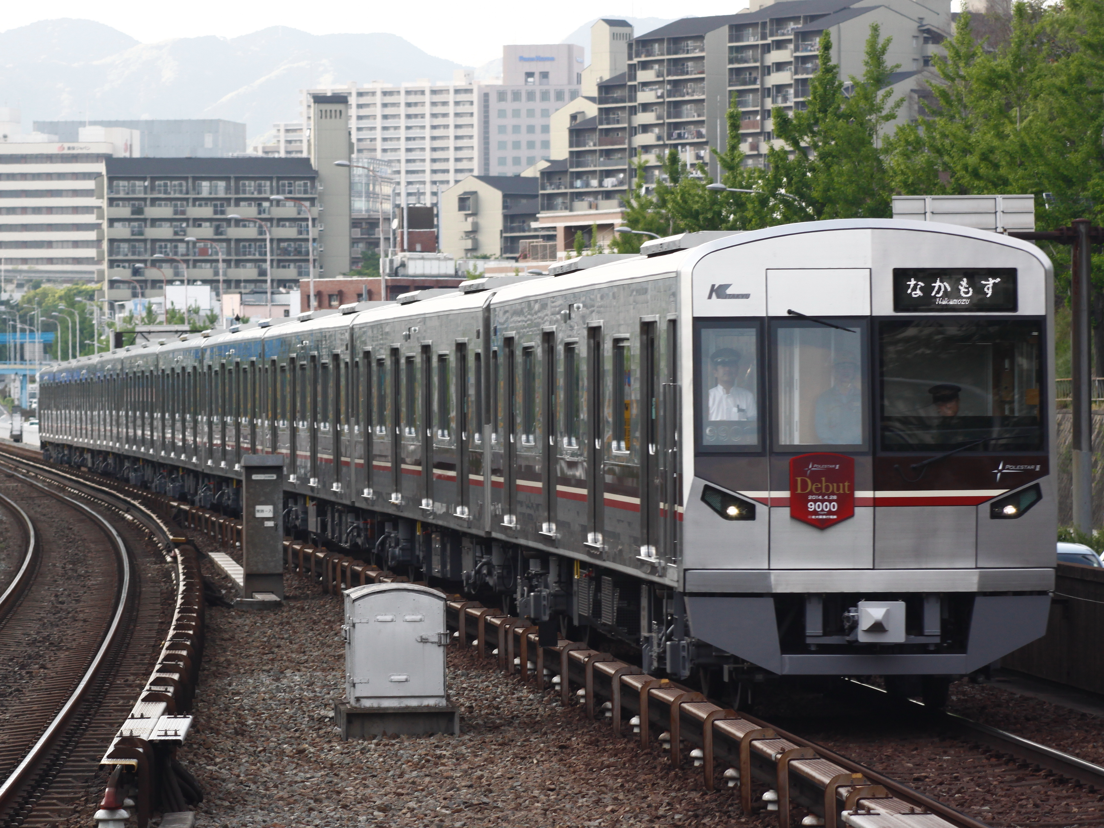 Kita-Osaka Kyuko 9000 series EMU set 9001 at Momoyamadai Station